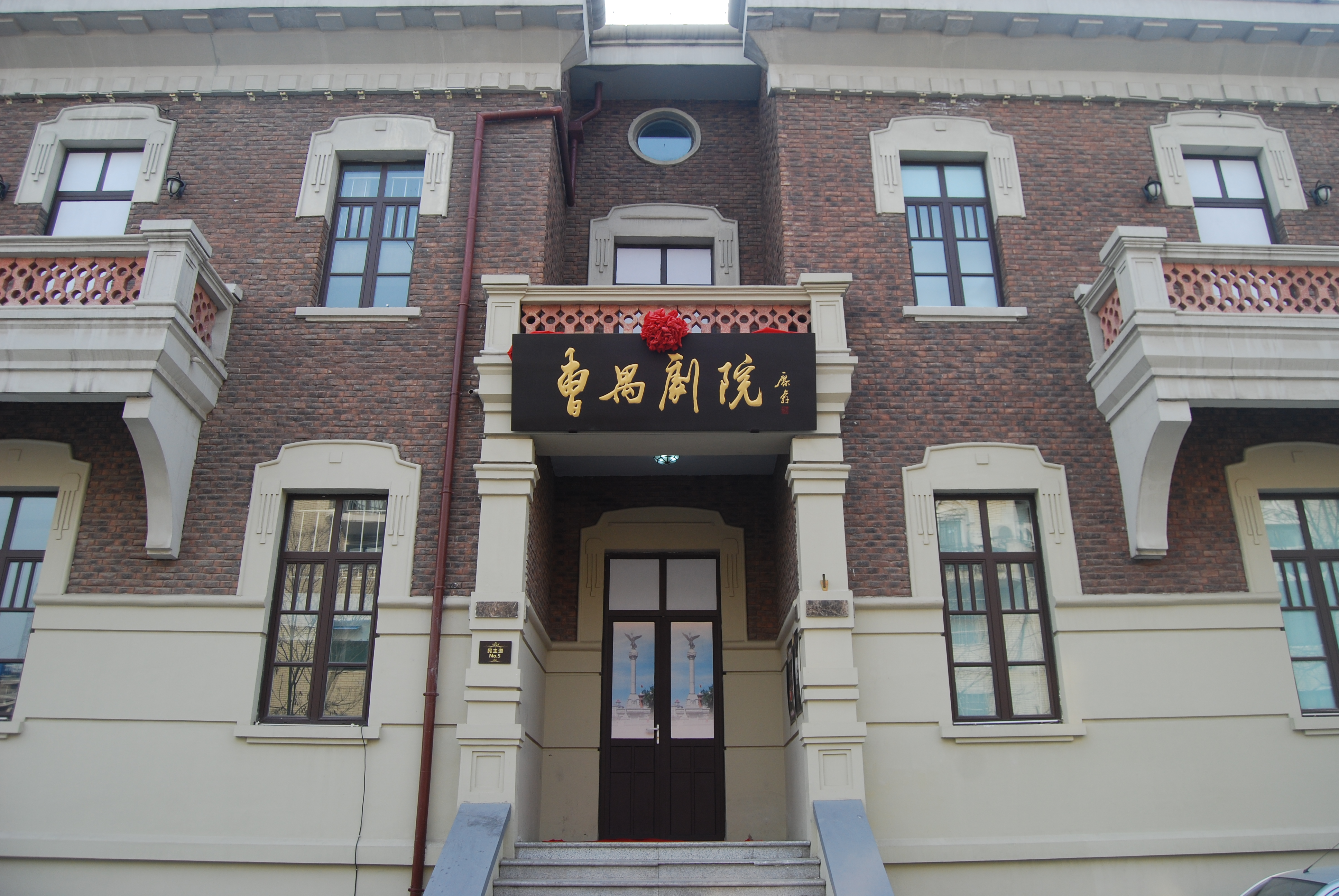 Cao Yu Theatre in Minzhu Dao No. 5, Hebei District, Tianjin